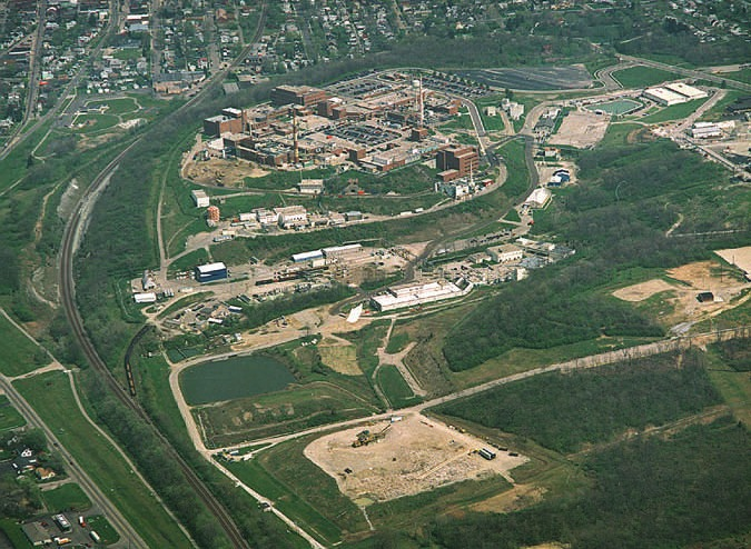 Aerial view of Mount Facility, U.S. Department of Energy